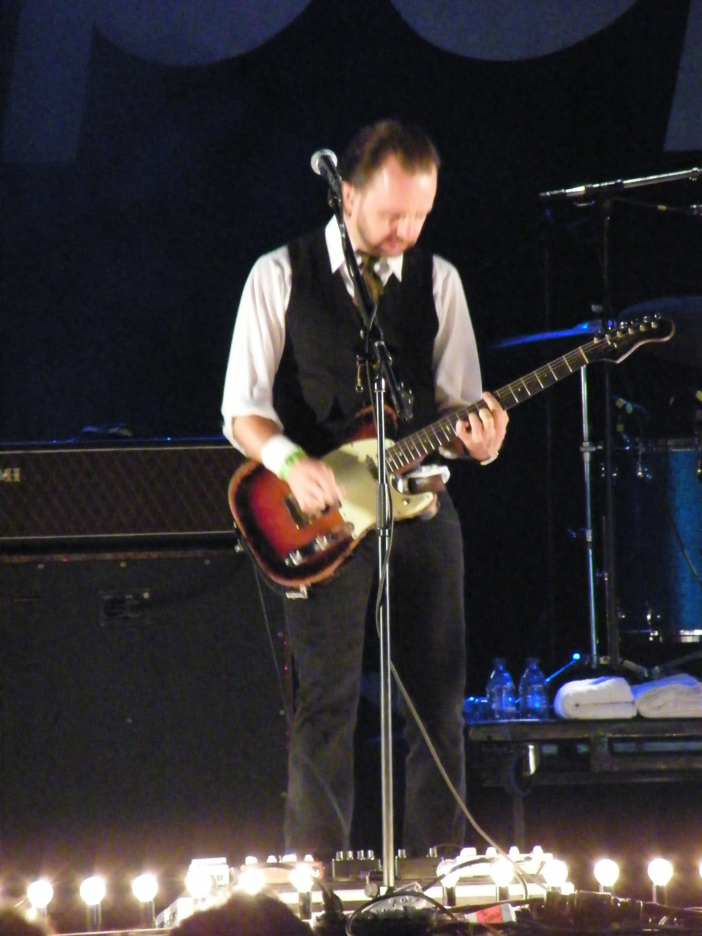 Tim Christensen Danish singer/songwriter and rockmusician.